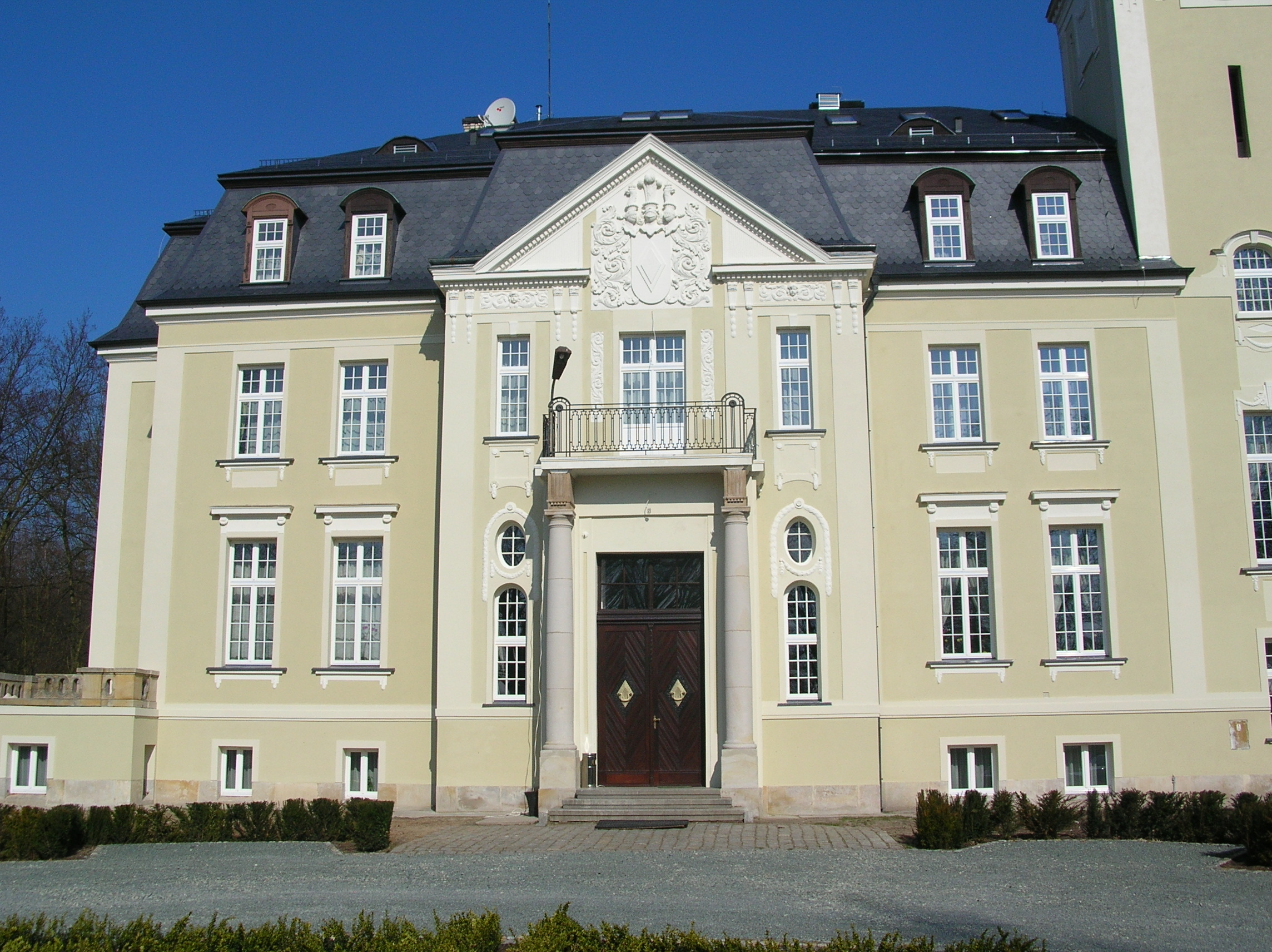 Palace in Borowa Oleśnicka